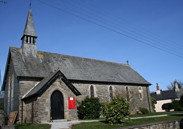 Church of St Mary the Virgin